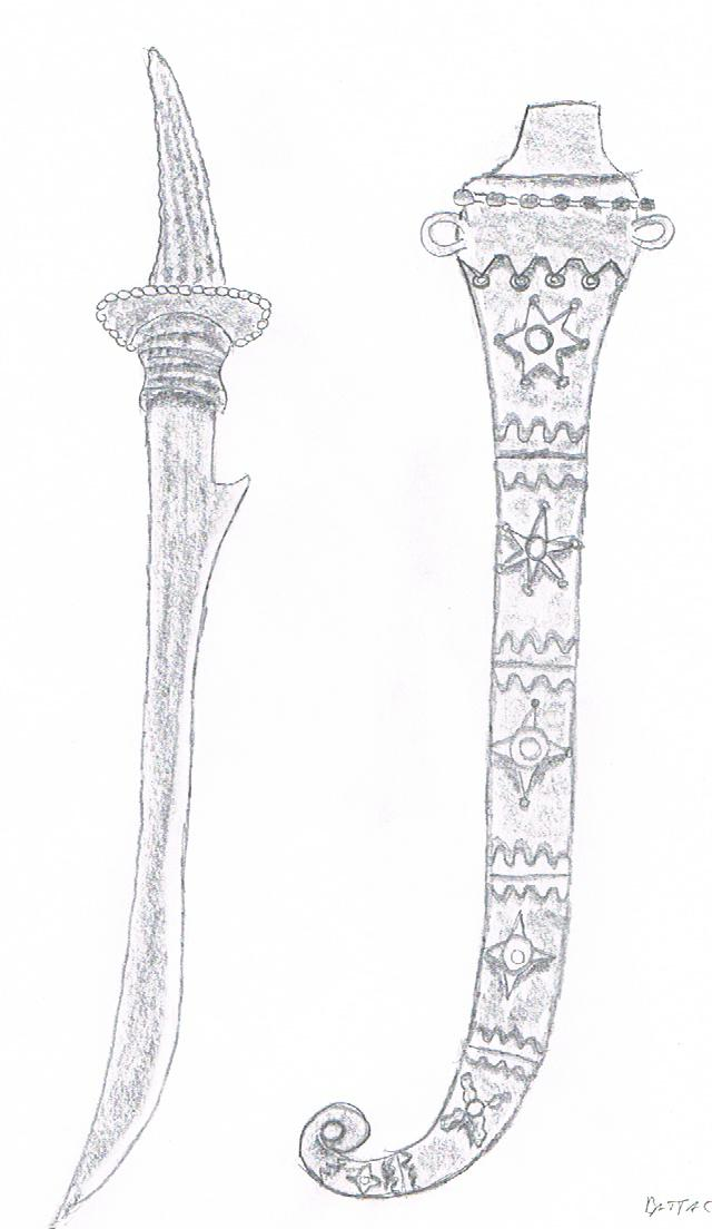 Battack